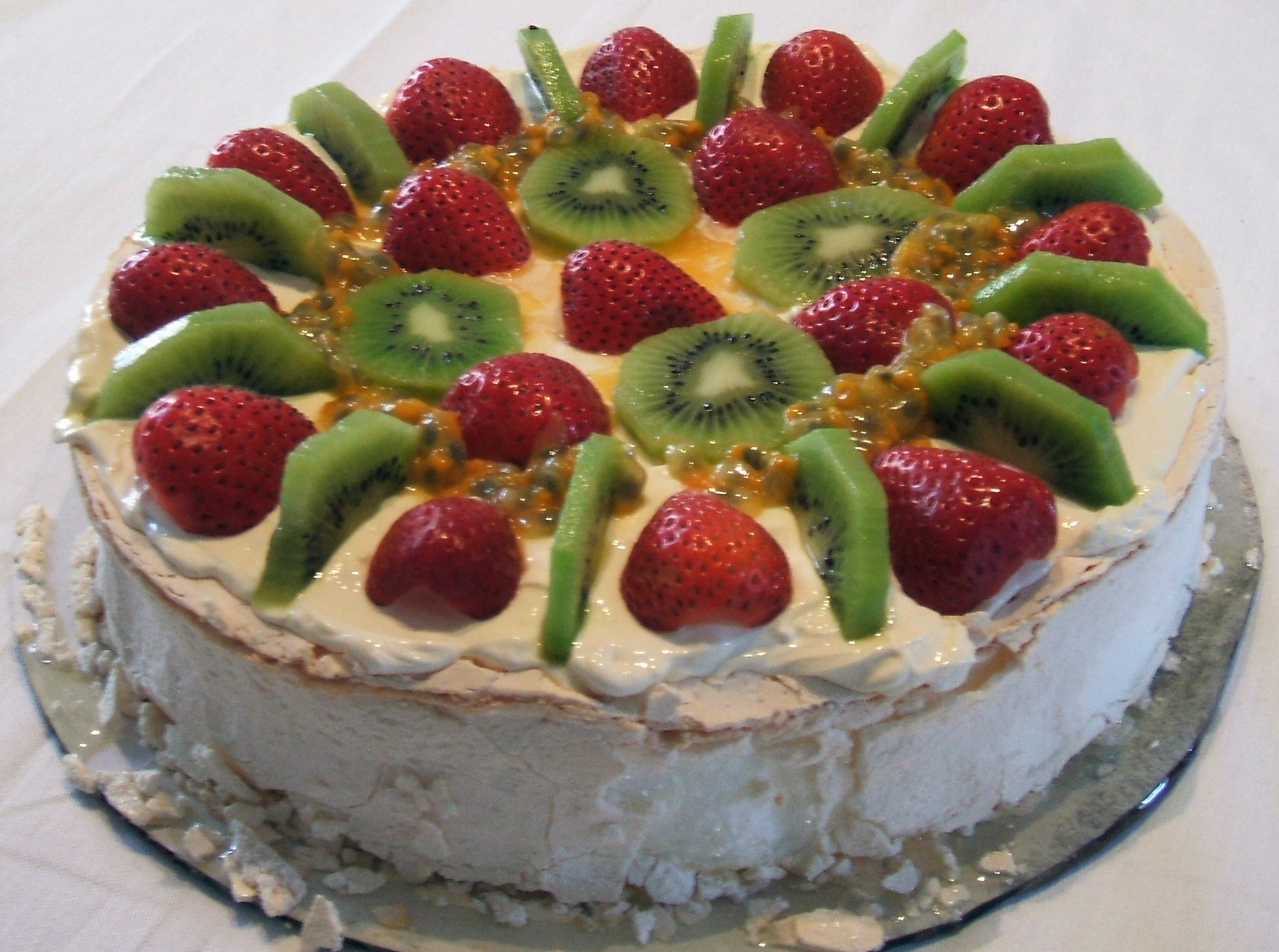 Photo of pavlova dessert with topping of kiwifruit, strawberries and passionfruit.